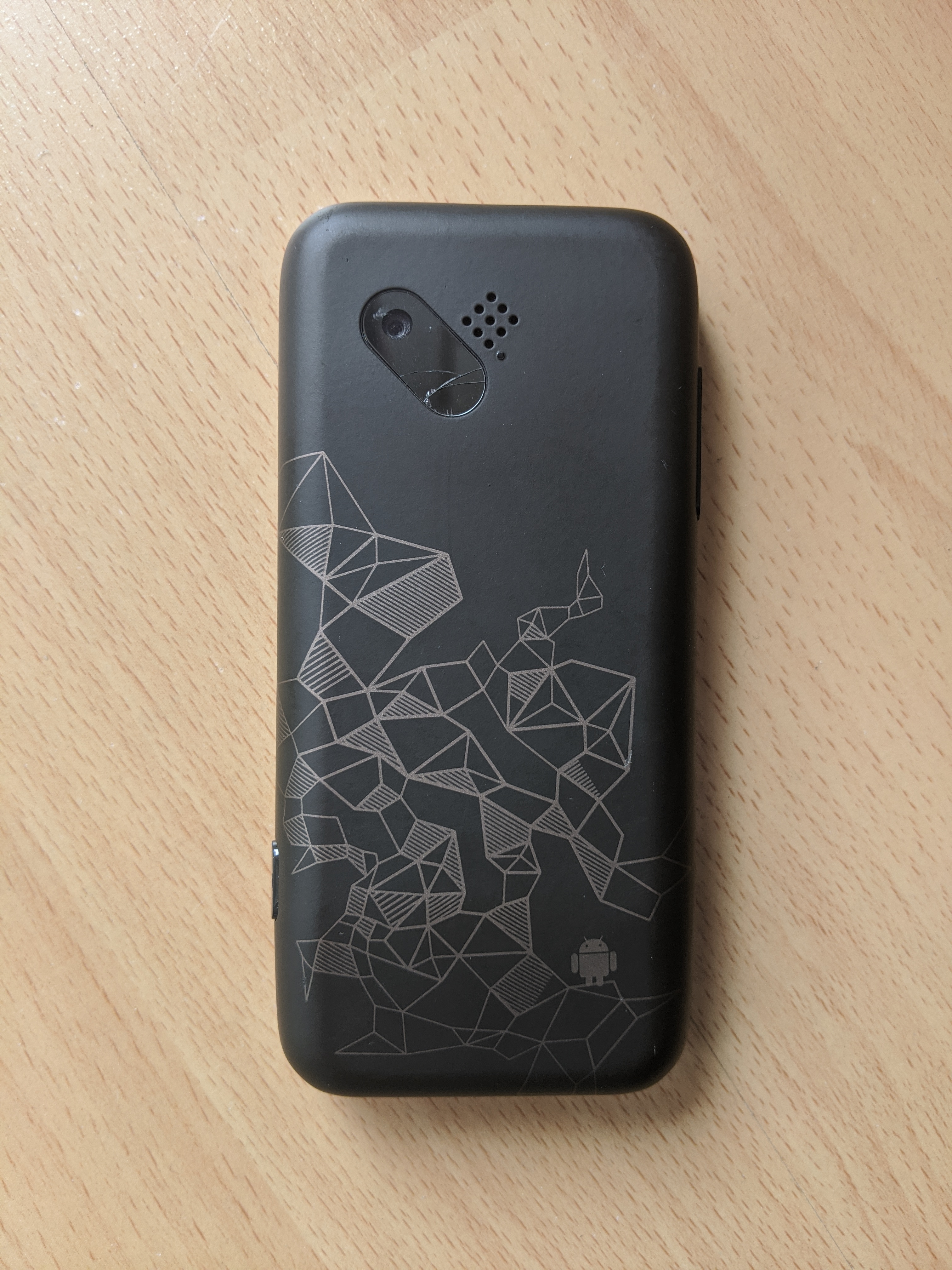 This is the back cover of the ADP1 showing a geometric landscape with the iconic Android mascot. This art sets the ADP1 apart from HTC Dream.